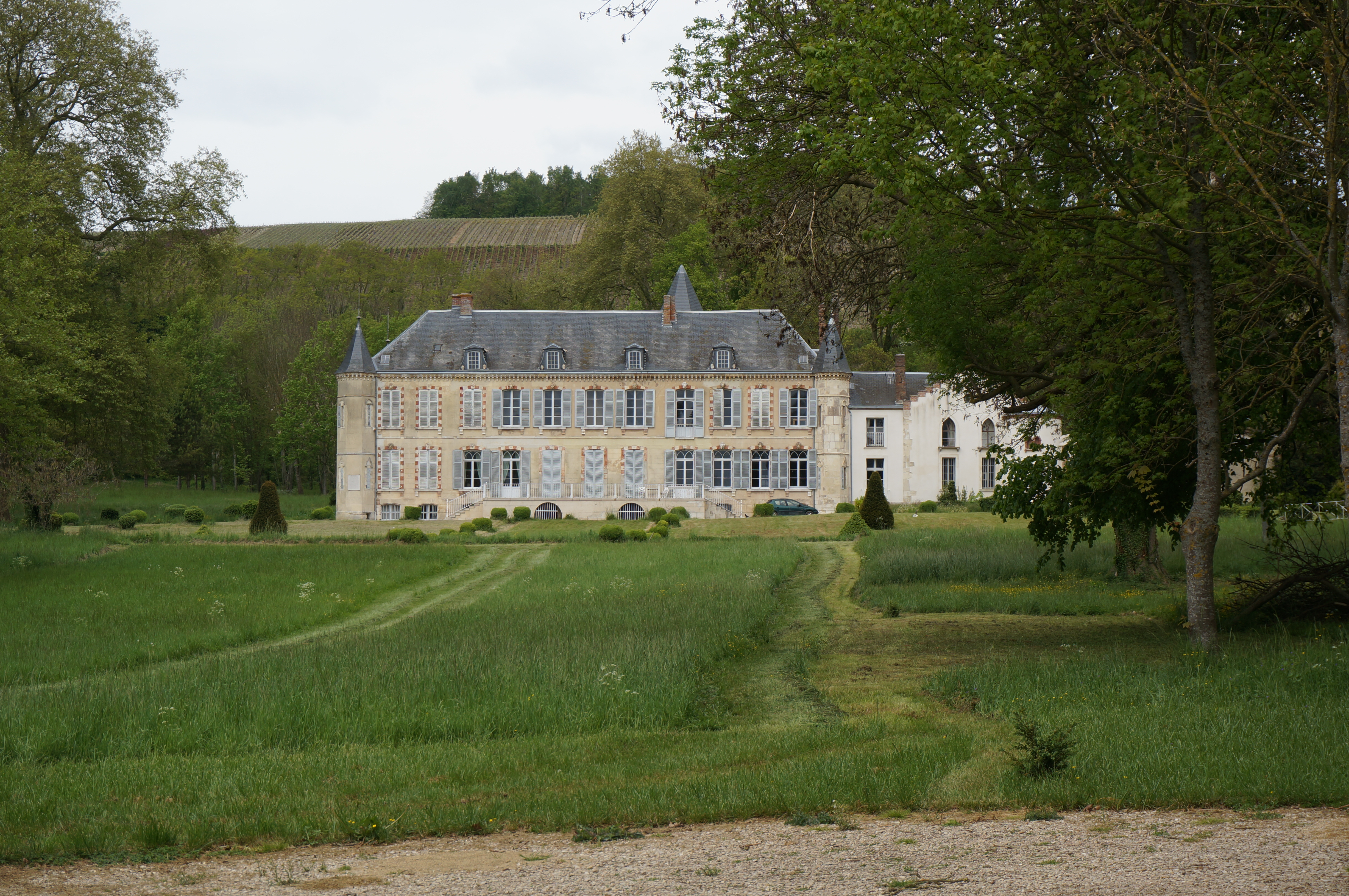 Château et parc Vandières